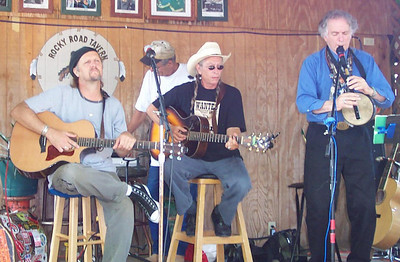 Joel Rafael at the 2006 WoodyFest in Okemah, OK.